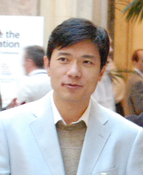 Robin Li, Chairman and CEO of Baidu, the biggest search engine in the worlds biggest country, China. More details on Forbes: Chinese Internet entrepreneur returns to the billionaire ranks and is now nearly twice as rich as he was in 2008 when he last made the cut. Heads China's online search leader, Baidu, which posted 48% rise in fourth quarter profit. Stock up 281% in the past 12 months, thanks to the strong results but also more recently due to its ongoing rivalry with Google. Baidu shares, and his fortune, jumped a third after Google said in January it might pull out of China. Before cofounding Baidu in 2000, Li worked as a staff engineer in Silicon Valley for Infoseek, a pioneer in the Internet search engine industry. Li sits on board of New York-listed New Oriental Education & Technology, which provides educational services in China. Wealth estimate includes shares held by wife, Melissa Ma.